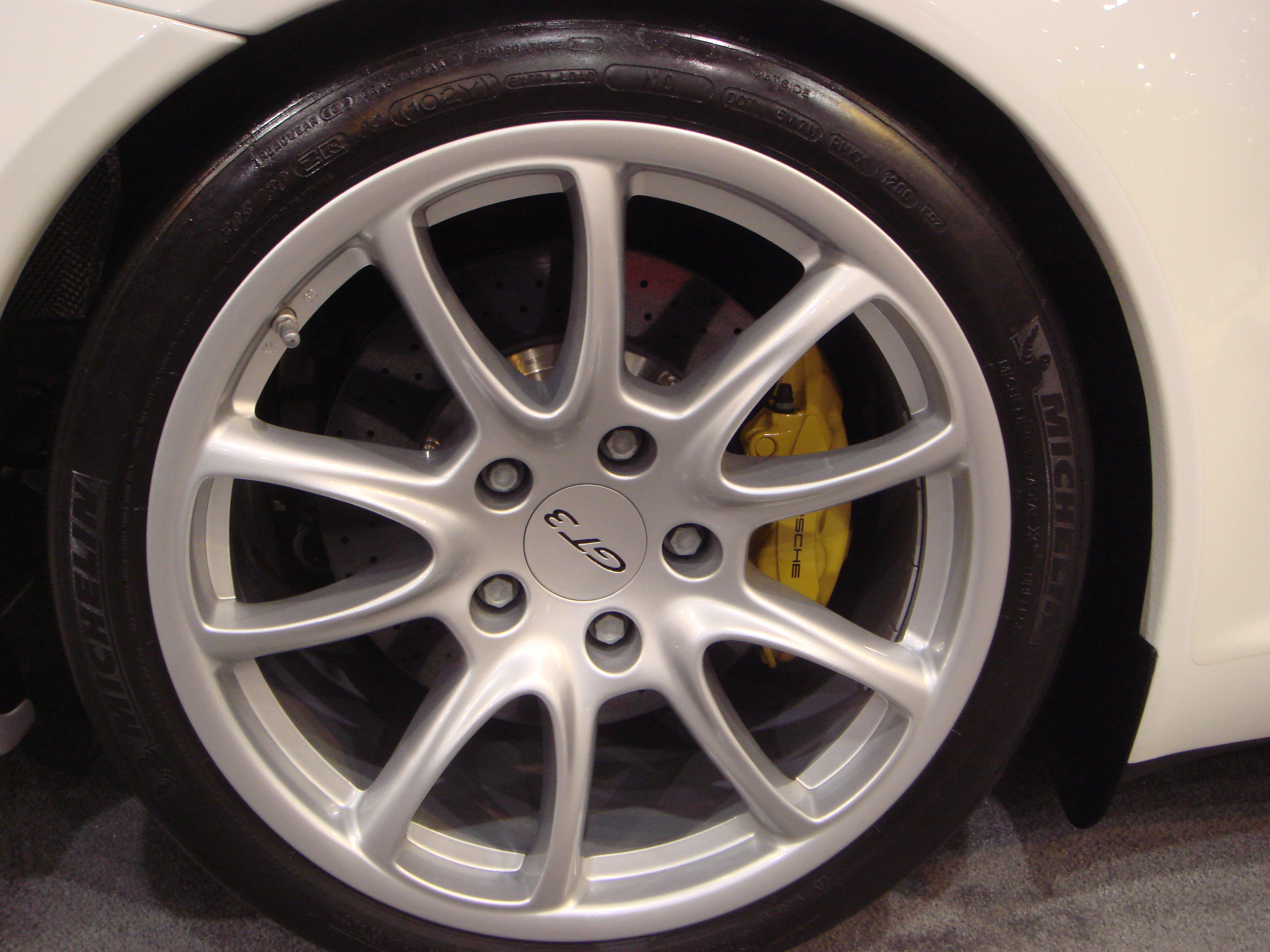 2006 Porsche 911 GT3 (997) back wheel (right) with Porsche Ceramic Composite BreakDSC00267